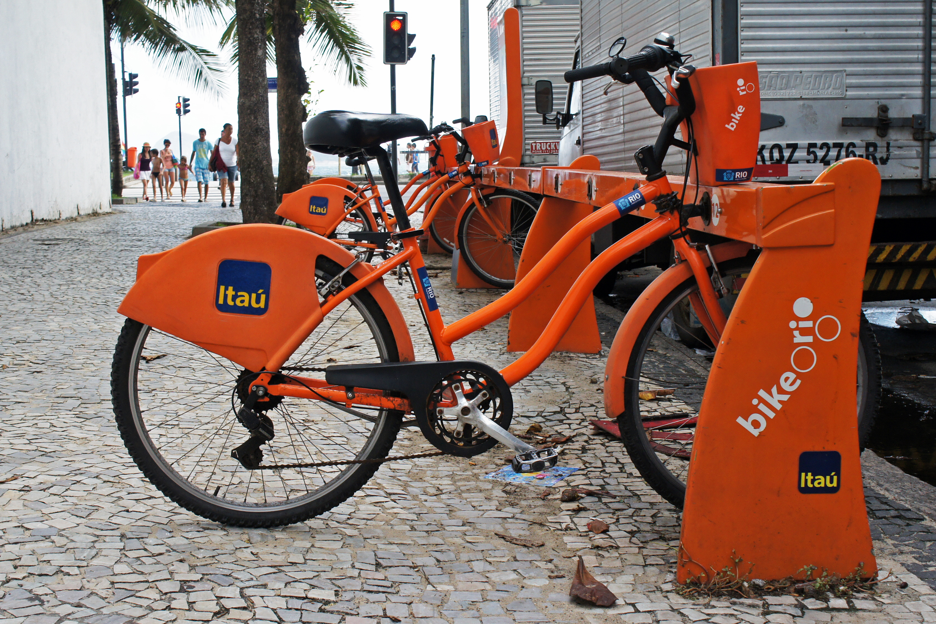 Bike Rio docking station "Posto 9", Rua Farme de Amoedo, Ipanema, Rio de Janeiro.